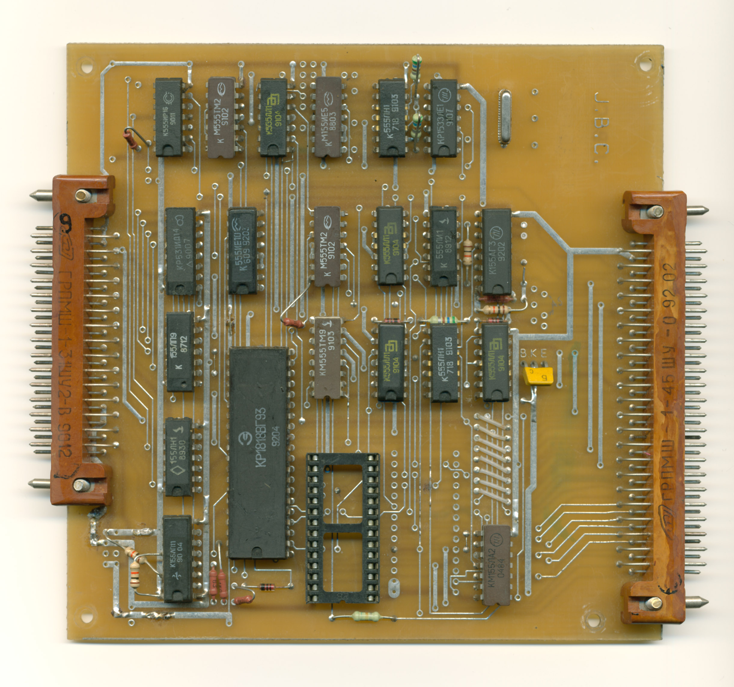 Soviet Union clone of circuit board for Beta-Disk controller, without ROM chips.